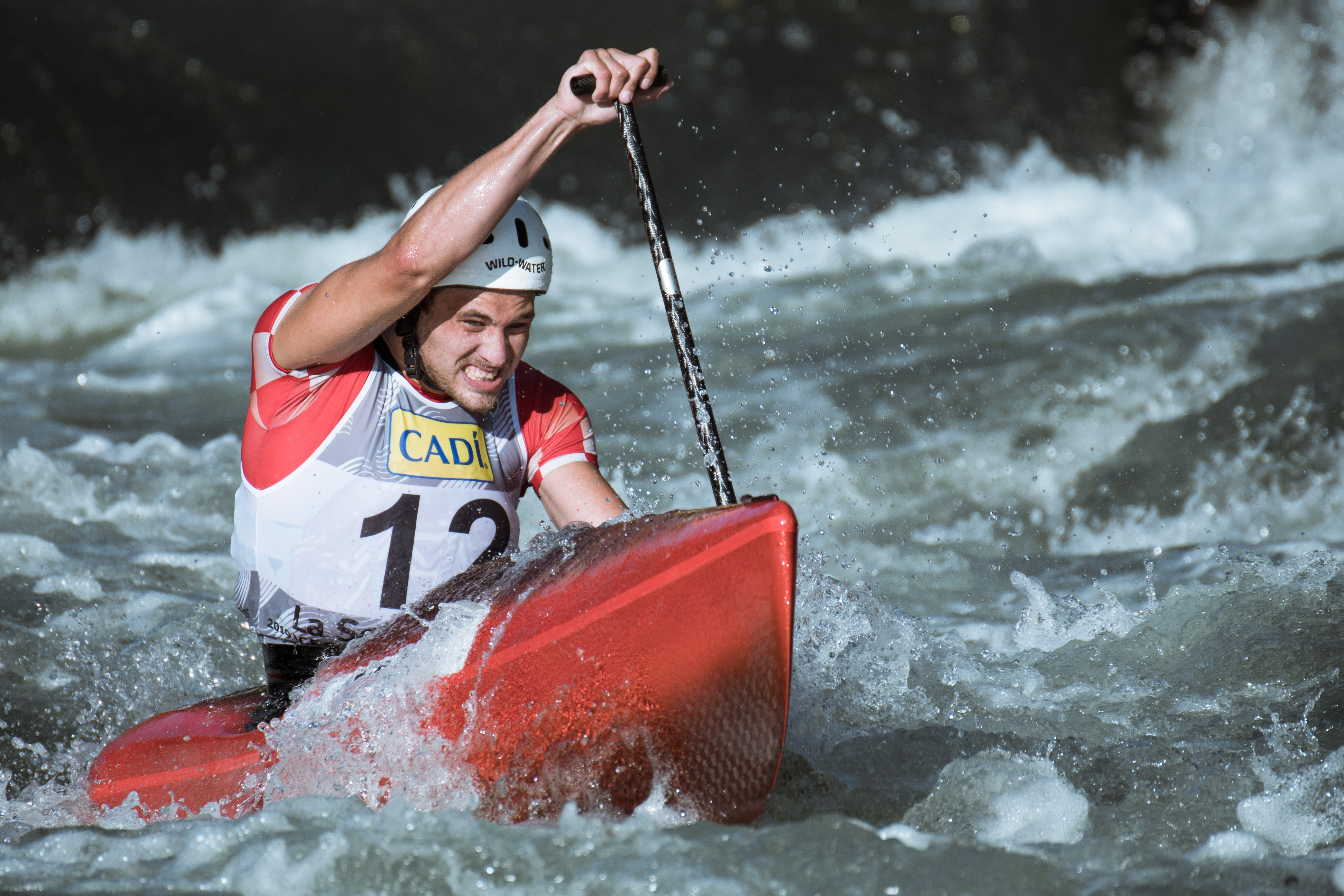 Luka Obadić during the 2019 Canoe Wildwater World Championships in La Seu d'Urgell, Spain.